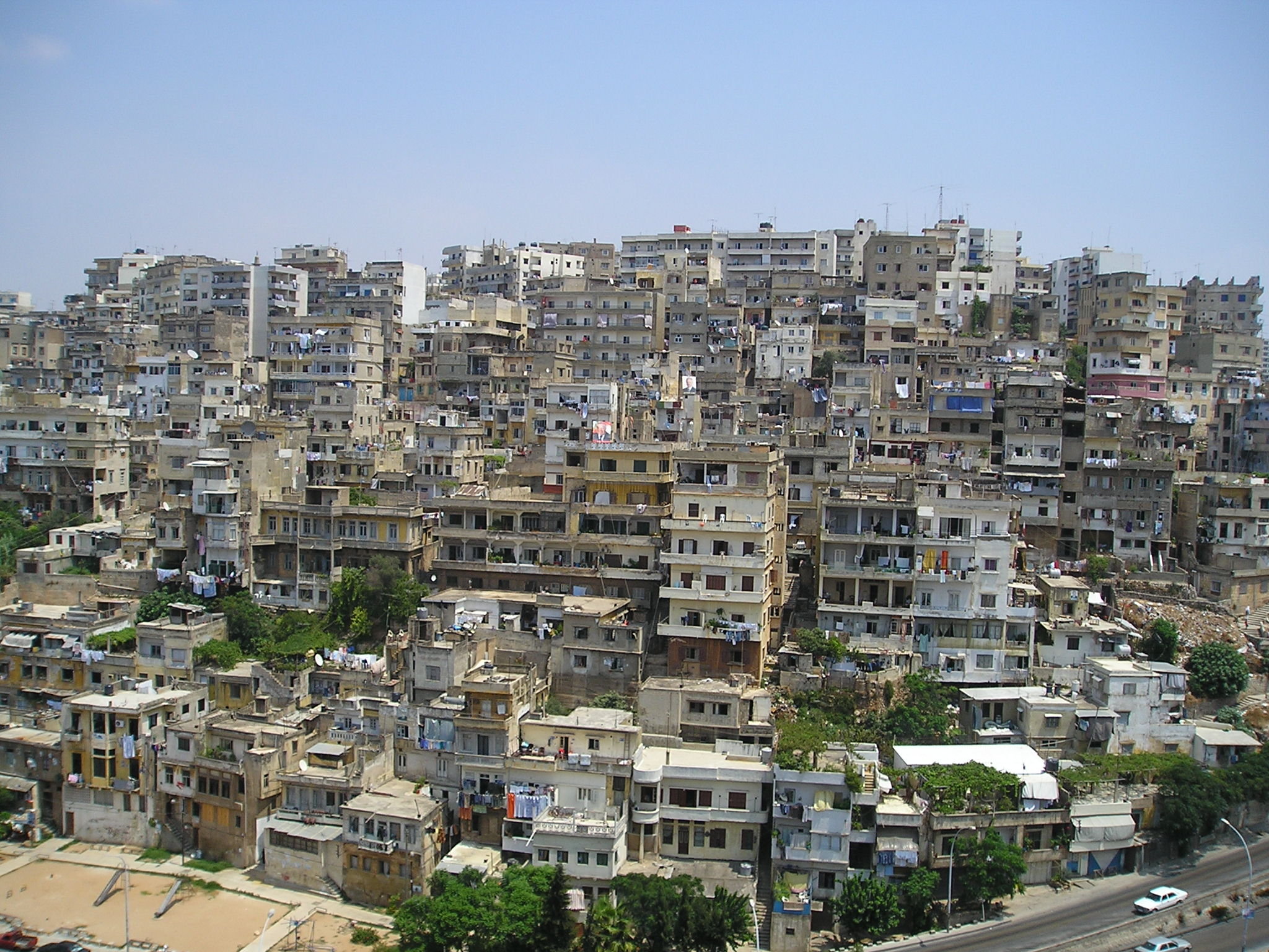 Tripoli, Lebanon - a view of eastern part of the city at a hillslope climbing east from the Nahr Abu Ali river